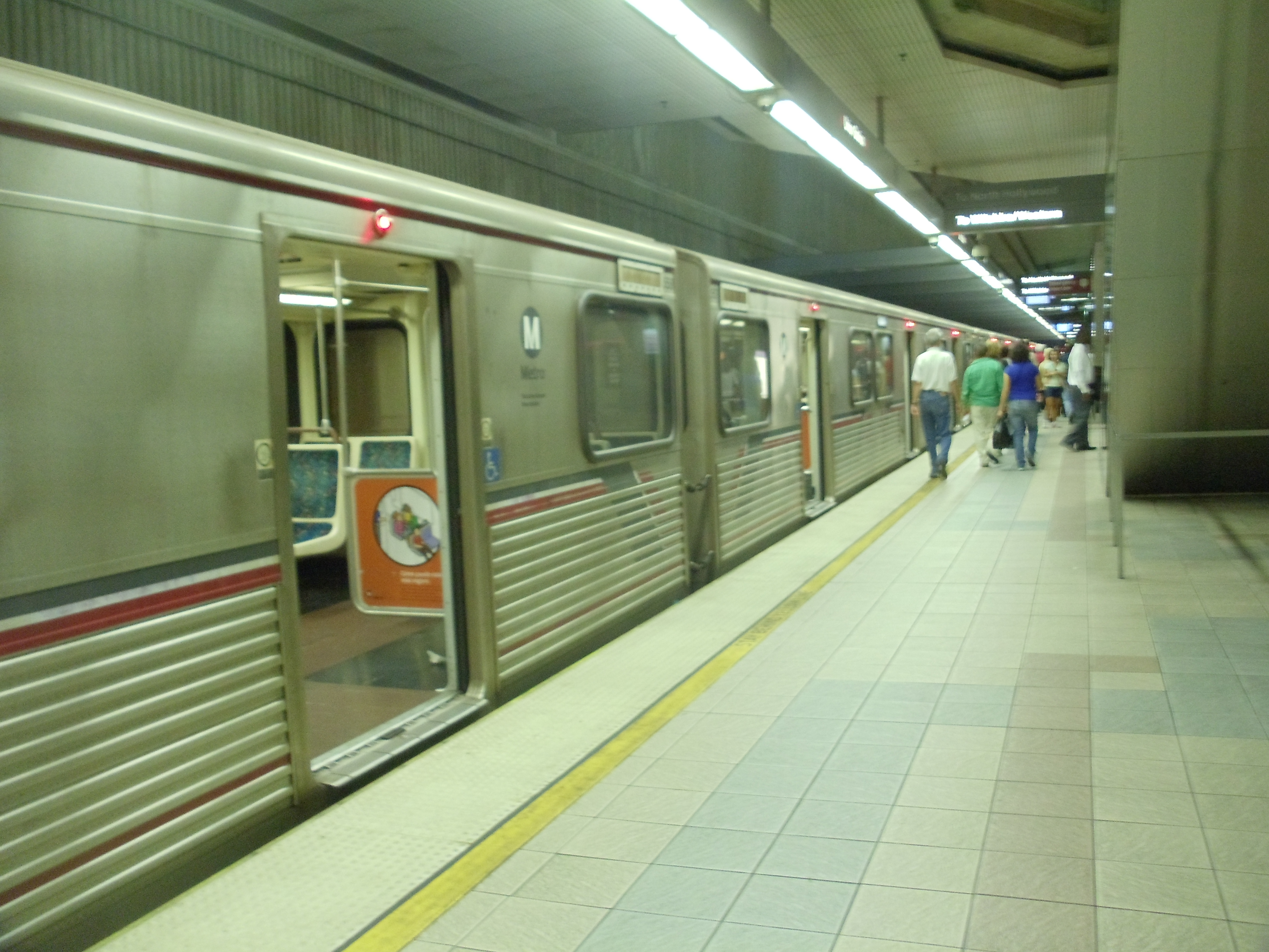 Metro Purple Line train arrives at Union Station.